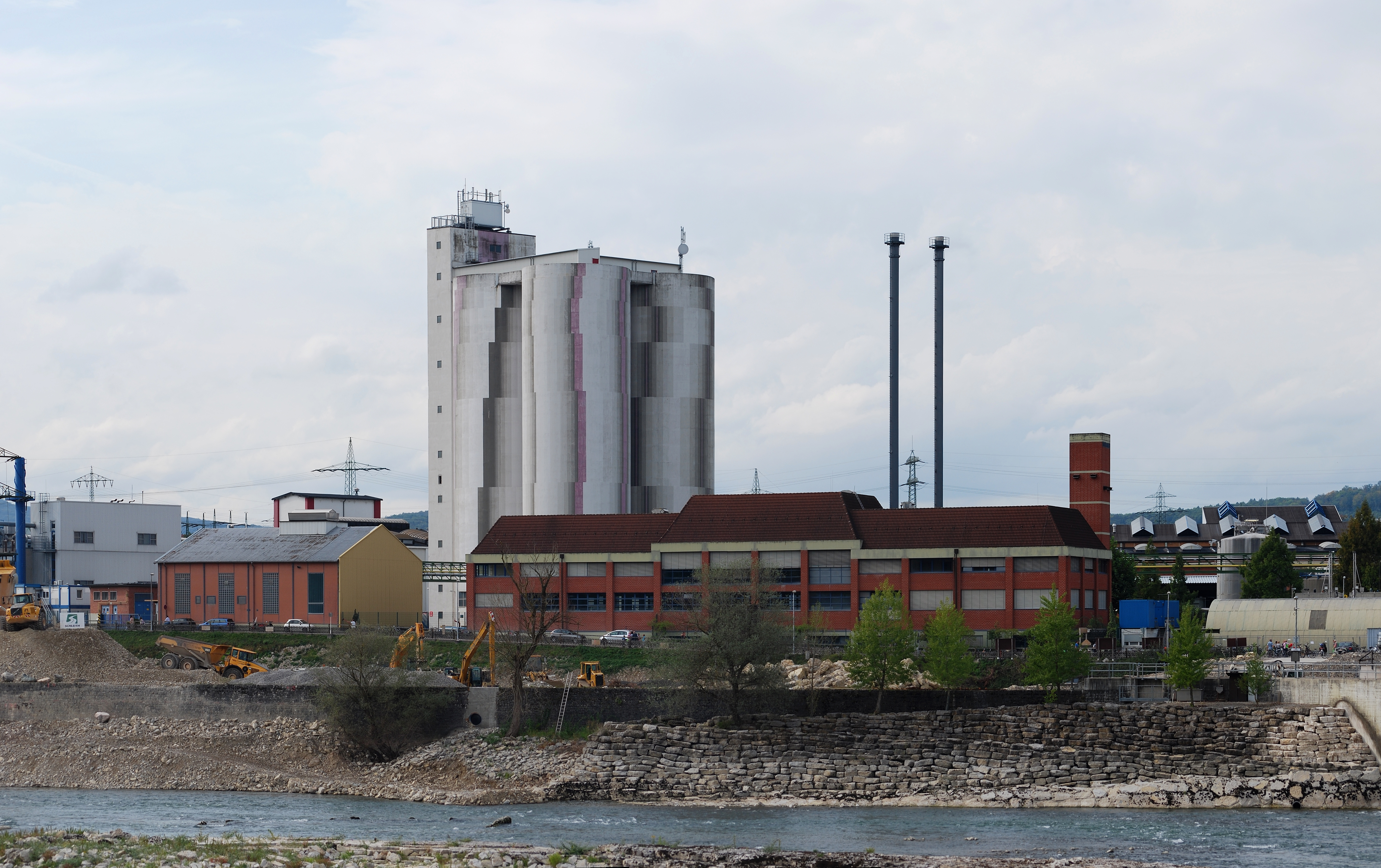 The plant of Evonik Degussa in Rheinfelden, Baden-Württemberg.